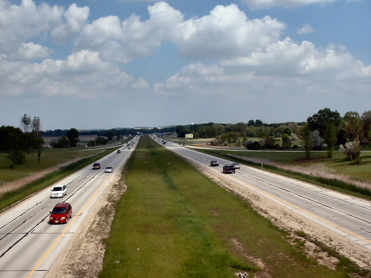 Photo of the freeway section of Wisconsin State Highway 16, looking East from the Ryan Street overpass (exit 186) in Pewaukee, Wisconsin. Photo taken May 26, 2006 by jwhouk.